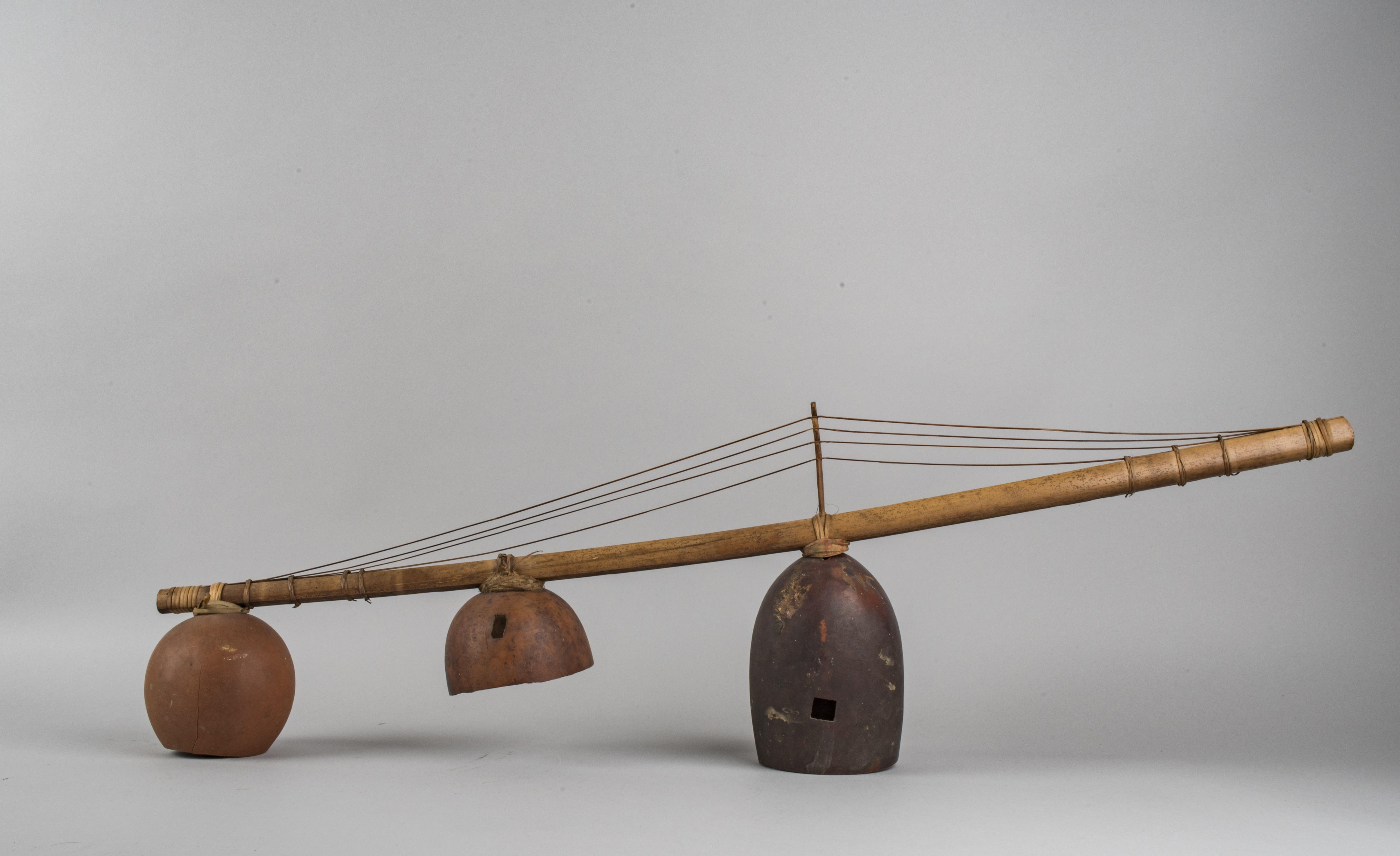 Mvet, harp-lute